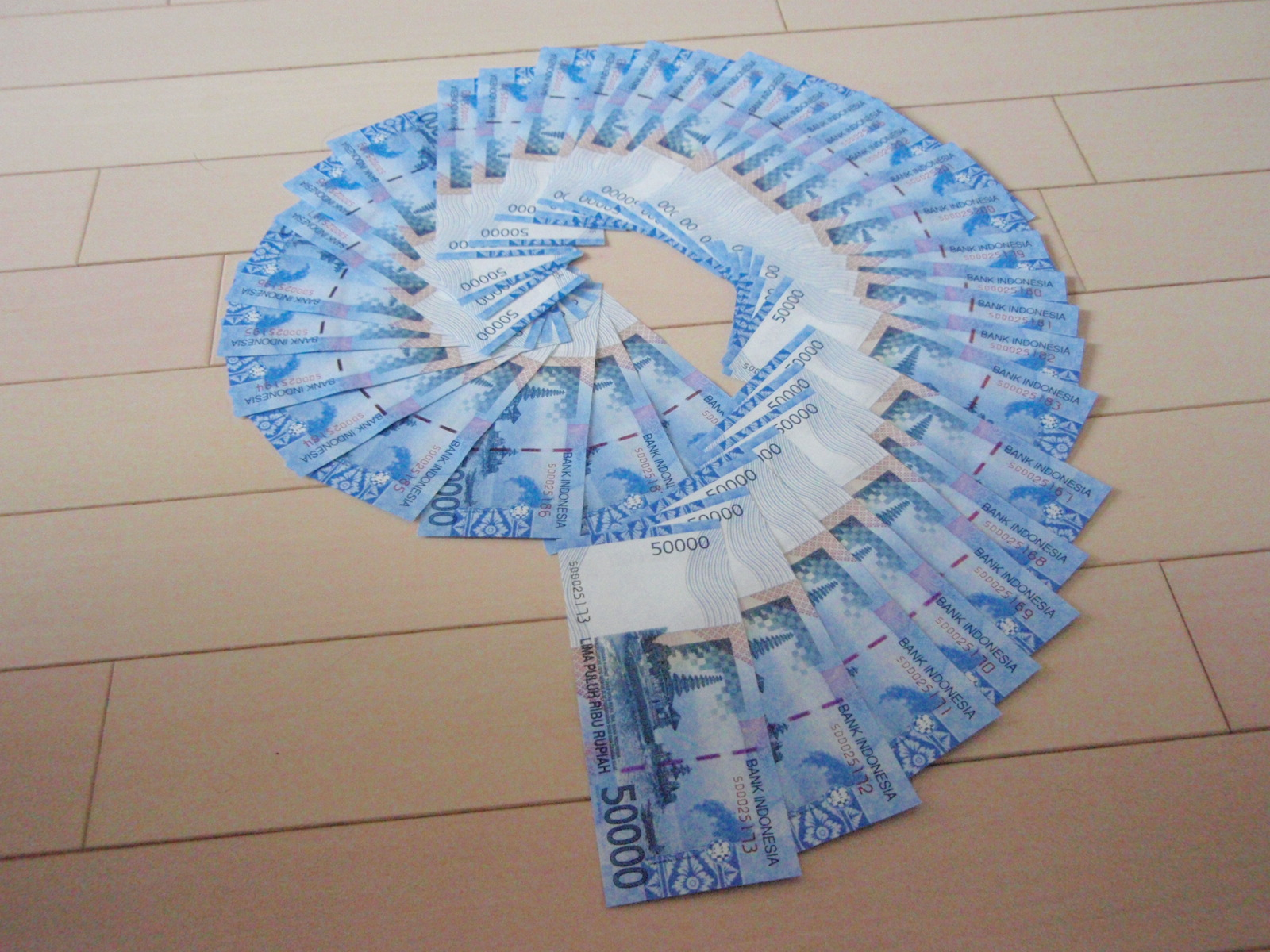 Approximately 2,000,000 Indonesian Rupiah laid out on my floor.